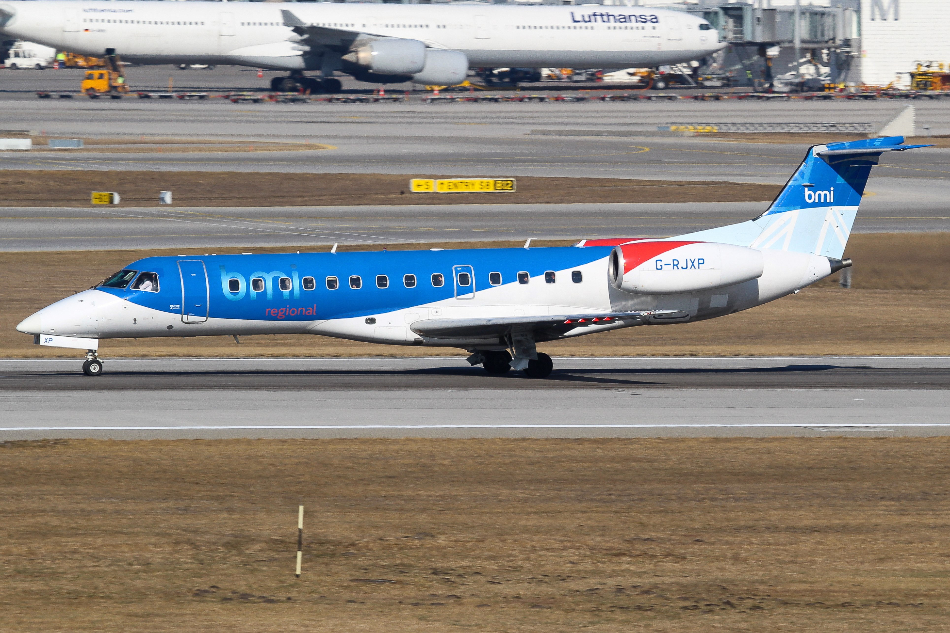 Bmi Regional Embraer ERJ-135LR at Munich Airport.